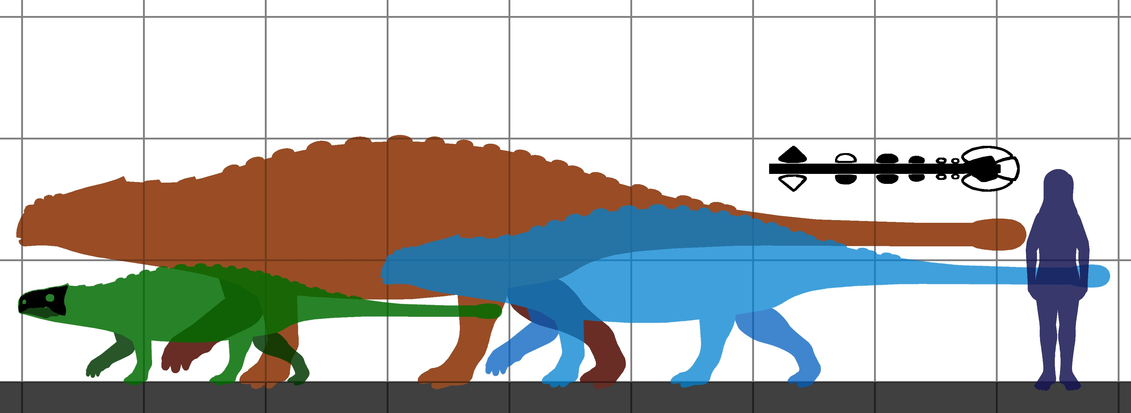 Size comparison between the ankylosaurian dinosaur Tarchia and a human. The size of Tarchia is here based on the size of the skull. The skull of Tarchia was 40 cm. long, and 45 cm. in its close relative Saichania.